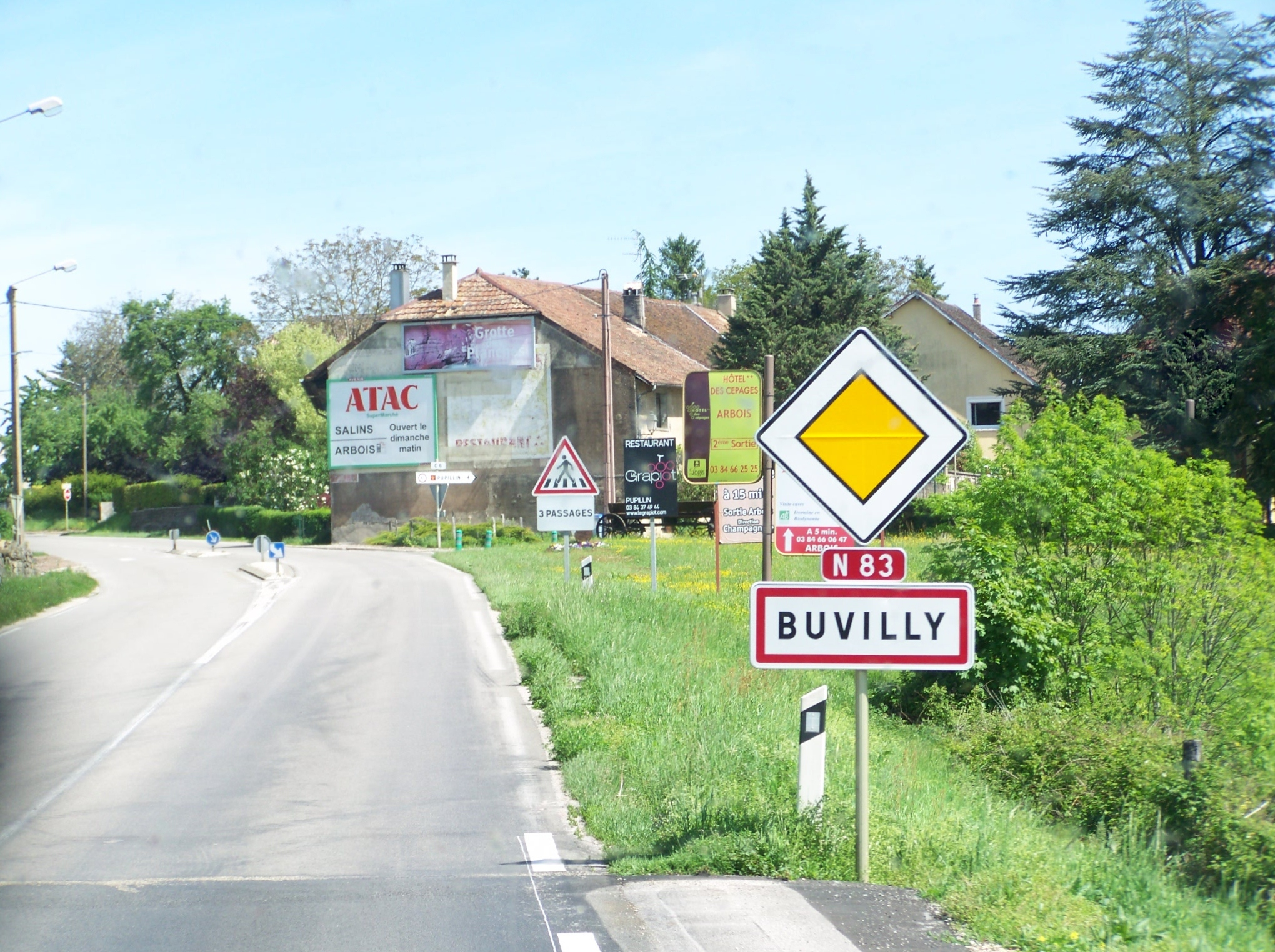 Sign welcoming to French village of Buvilly in Jura.